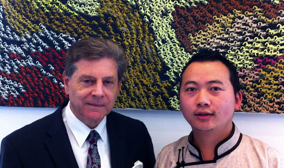 Eduard Oswald, Vice President of the German Bundestag and Otgonbayar Ershuu, Berlin 2012